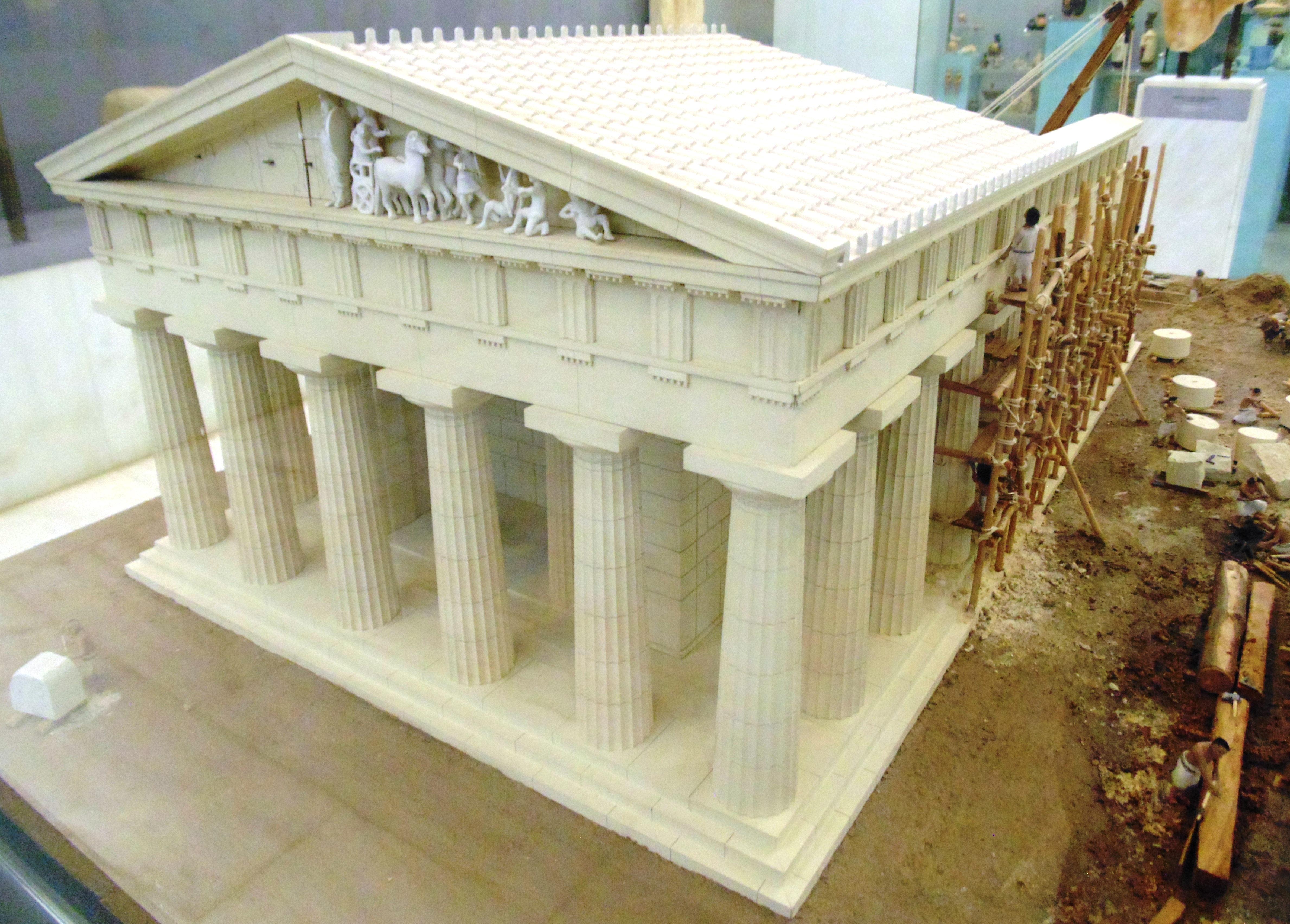 Collection of Archaeological Museum of Eretria